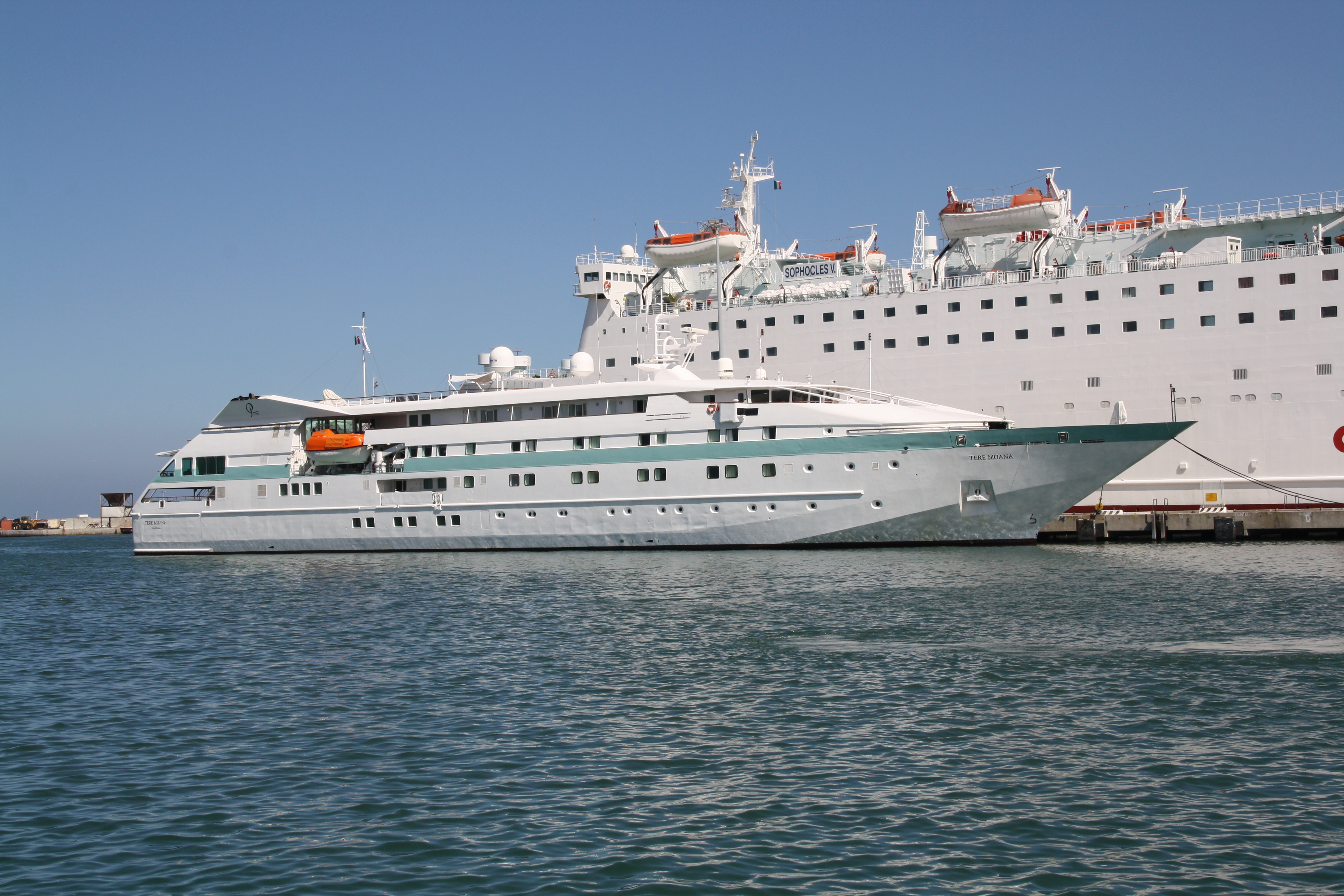 Bahamas Shipowner: Paul Gauguin Cruises IMO: 9159830 MMSI: 311058800 Call sign: C6ZL7 Type: Passenger ship Year of construction: 1998 Shipyard: Alstom Leroux, St. Malo, France Port of registry: Nassau Former name: Le Levant Deadweight tonnage: 1380 t Gross tonnage: 3504 t Length overall: 100.26 m Breadth: 13.9 m Draught: 3.4 m Speed: 13.5 knots